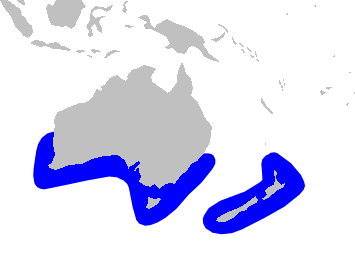 Distribution of Mesoplodon bowdoini